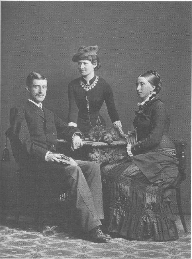 Author Verner von Heidenstam, his wife Emilia Uggla and his mother Magda. The photograph was taken in Kristiania (Oslo), Norway, in 1882.